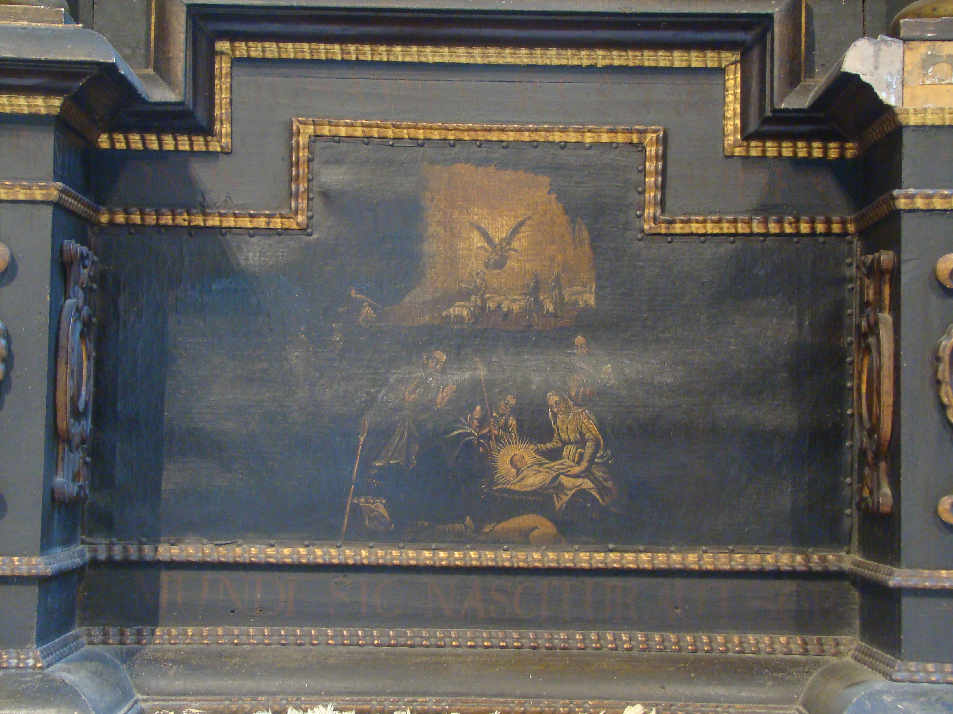 Lutheran church in Bistrița